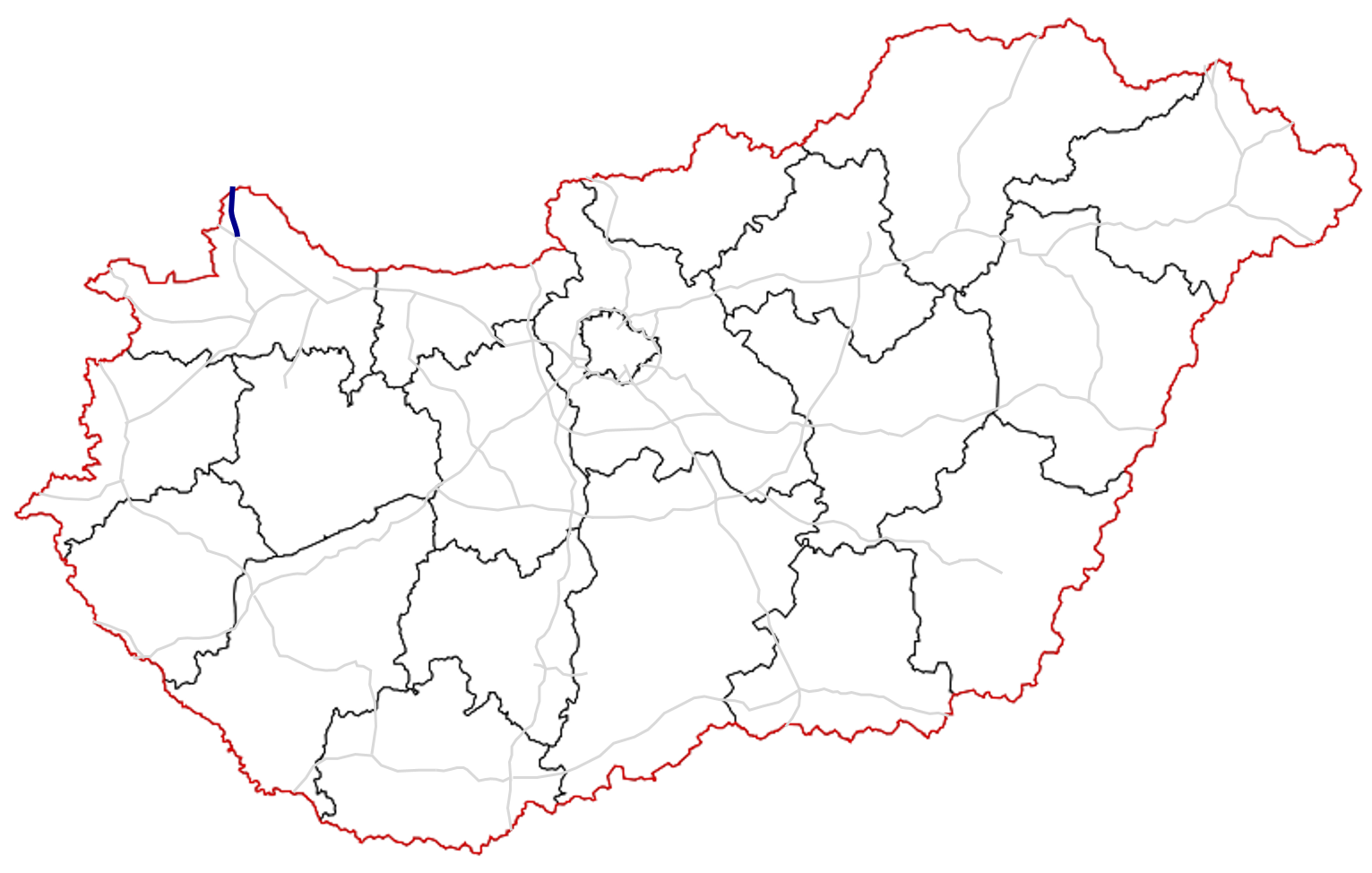 Traject the M15 Motorway, Hungary (Blue: in use, Light blue: under construction, Green: planned)